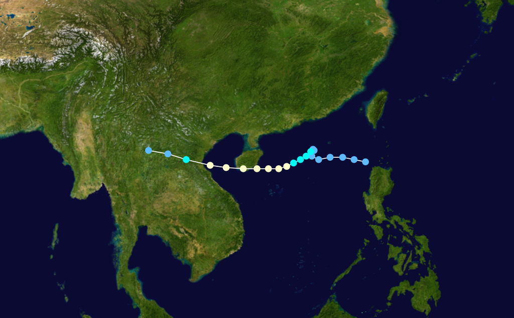 Typhoon Brian 1989 track. Uses the color scheme from the Saffir-Simpson Hurricane Scale.